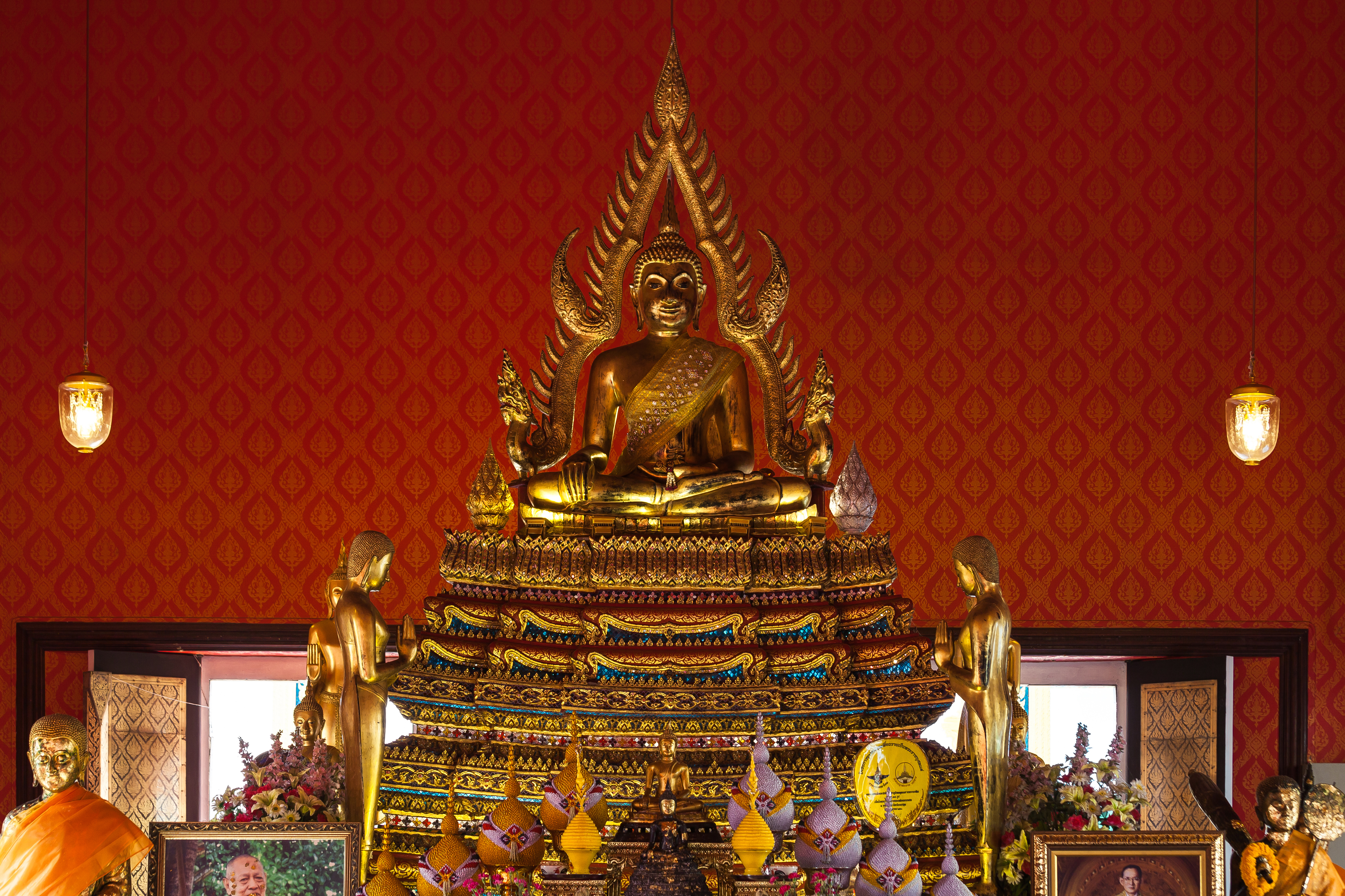 Luang Pho Ket at Wat Nimma Noradee, BKK.